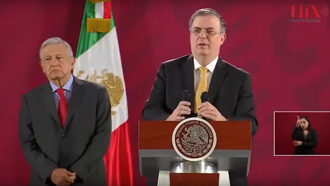 Press conference of Andrés Manuel López Obrador and Marcelo Ebrard announcing the asylum of Evo Morales in Mexico.